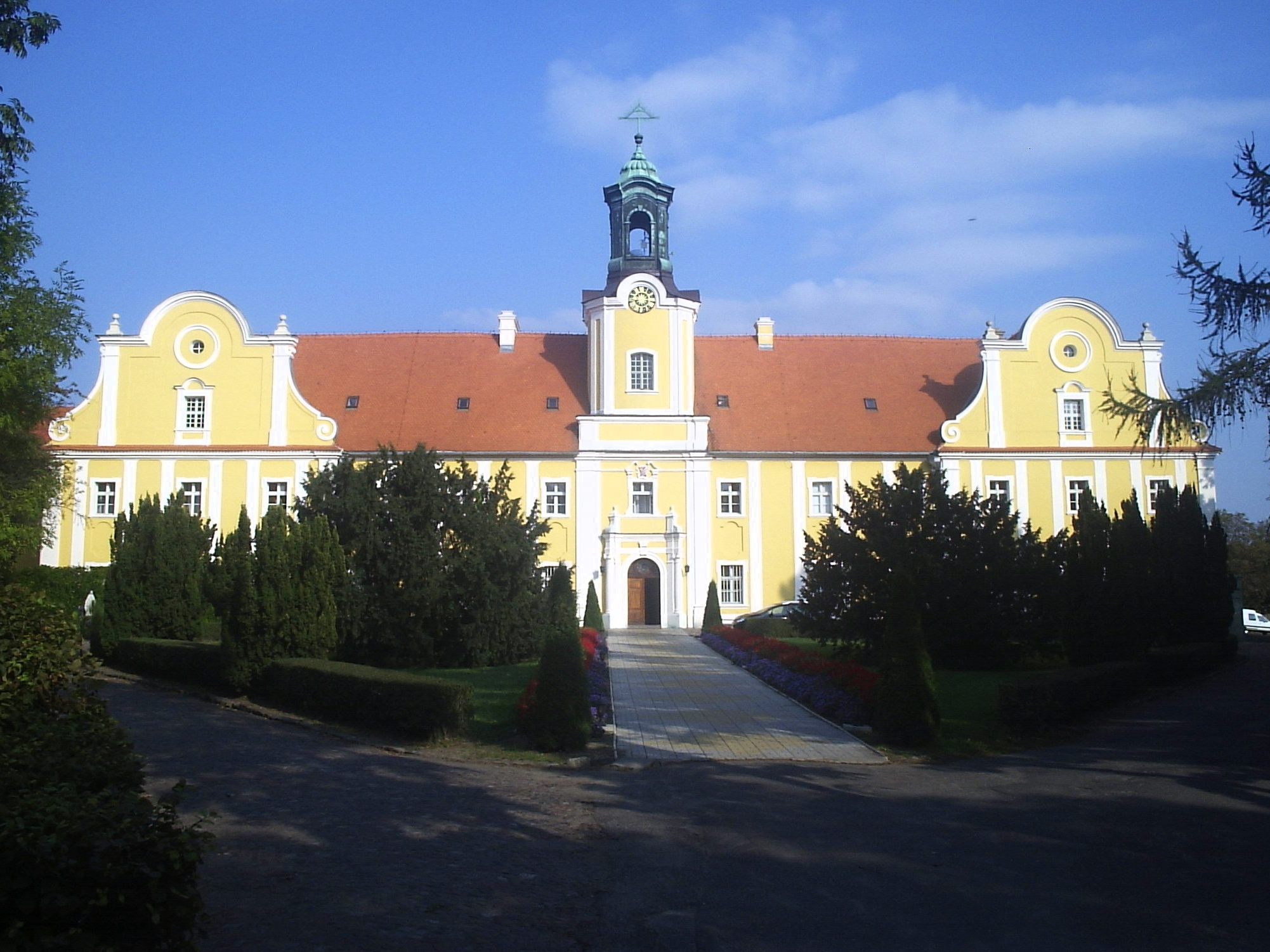 The Monastery of Congregation of St. Philip Neri's Oratory on the Holy Hill - Głogówko near Gostyń, Poland